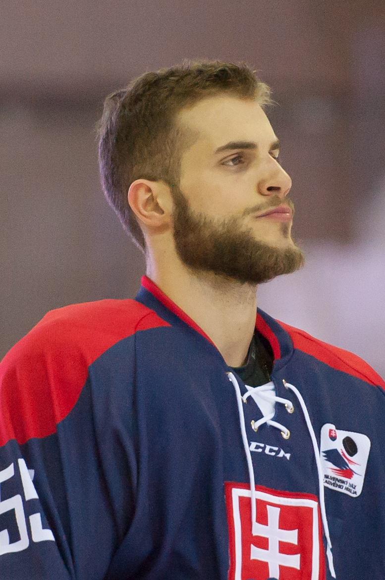 Euro Ice Hockey Challenge Vienna, February 7, 2015, Austria vs. Slovakia